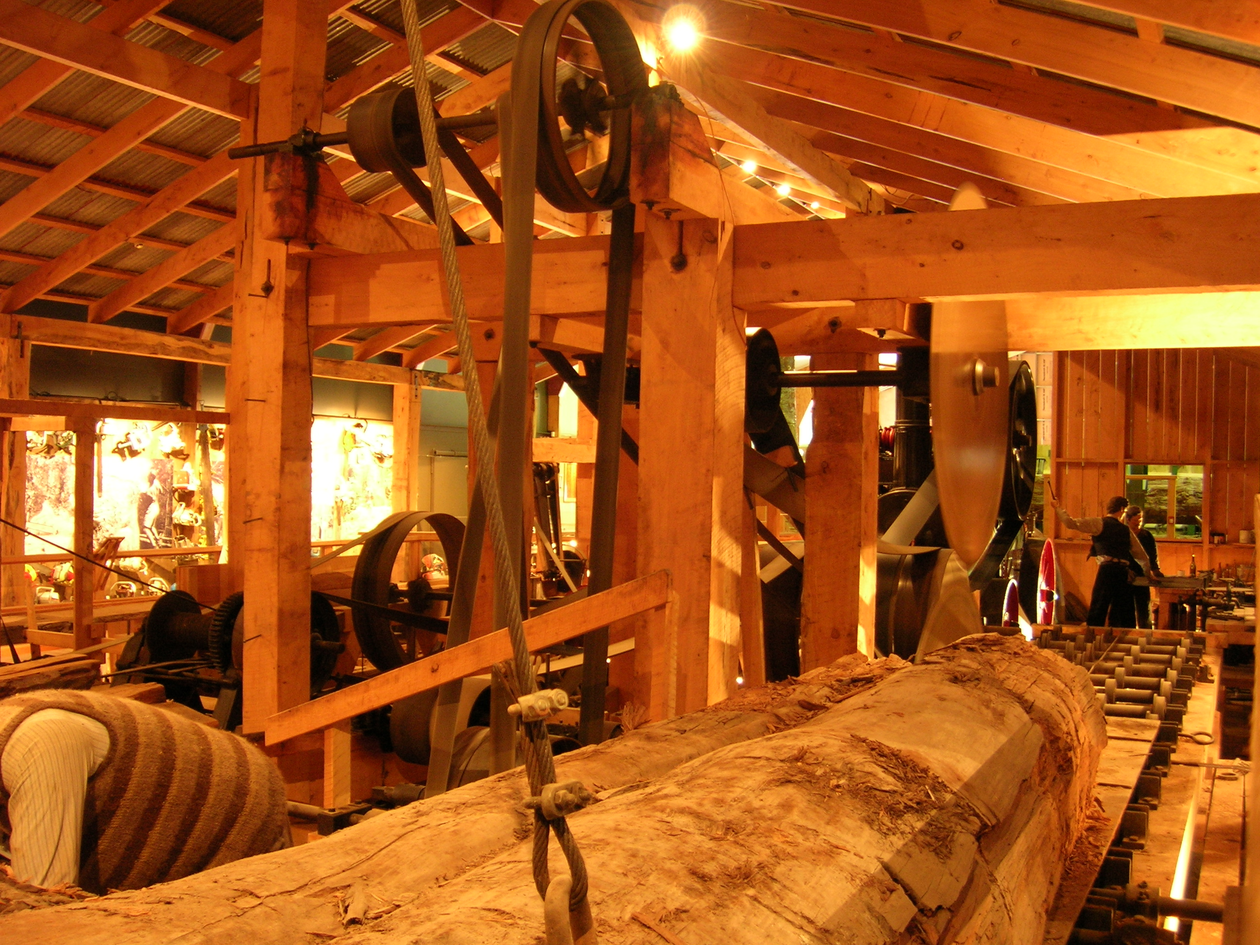 i102705 038 Church Road, Matakohe, Northland North Island, New Zealand